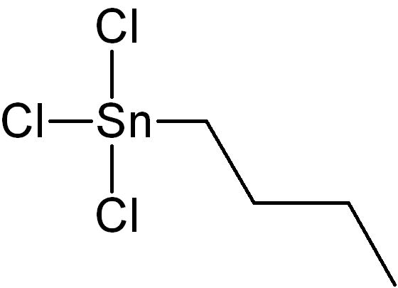 Butyltin trichloride